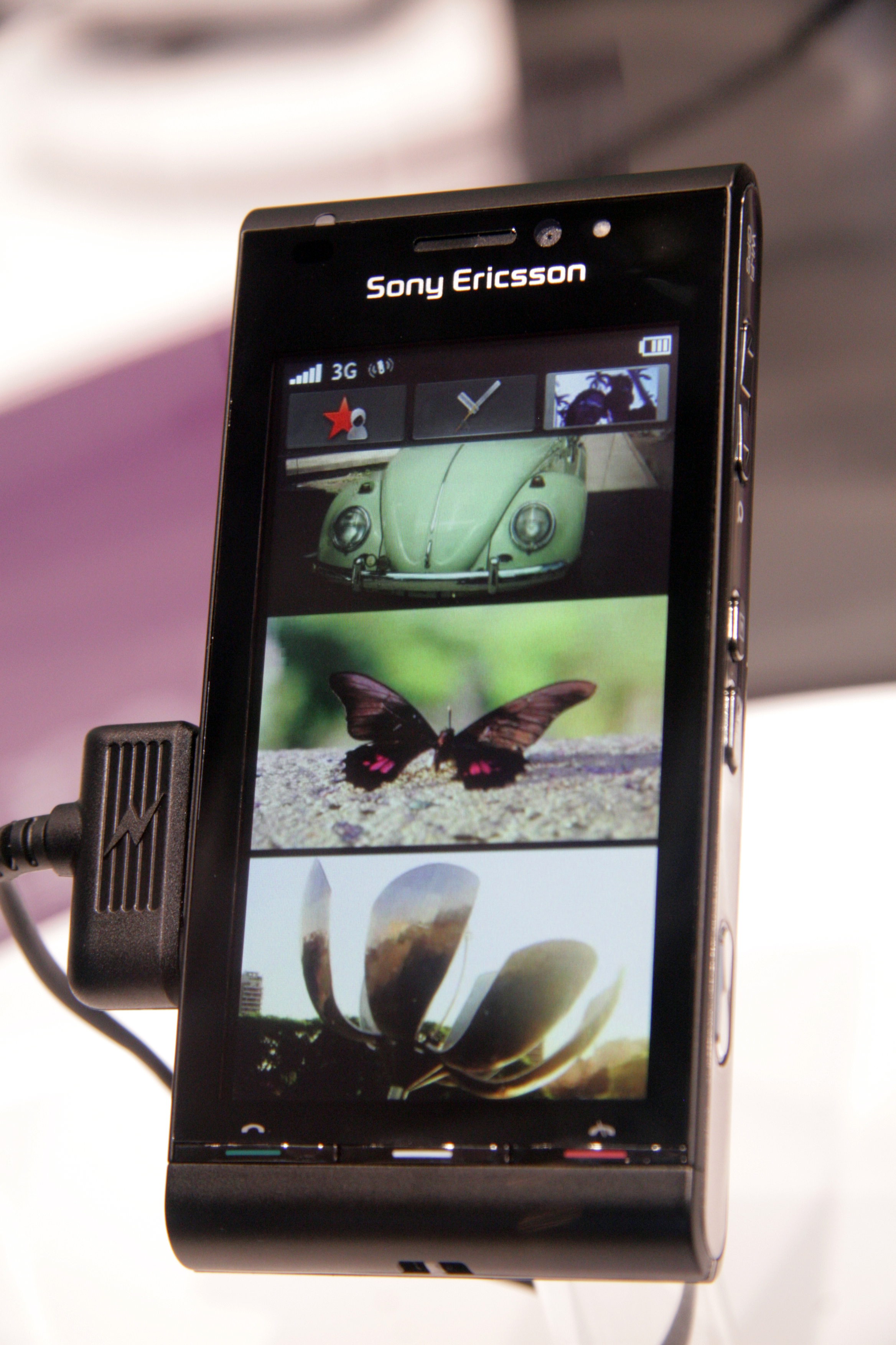 Sony Ericsson Idou phone ay MWC09